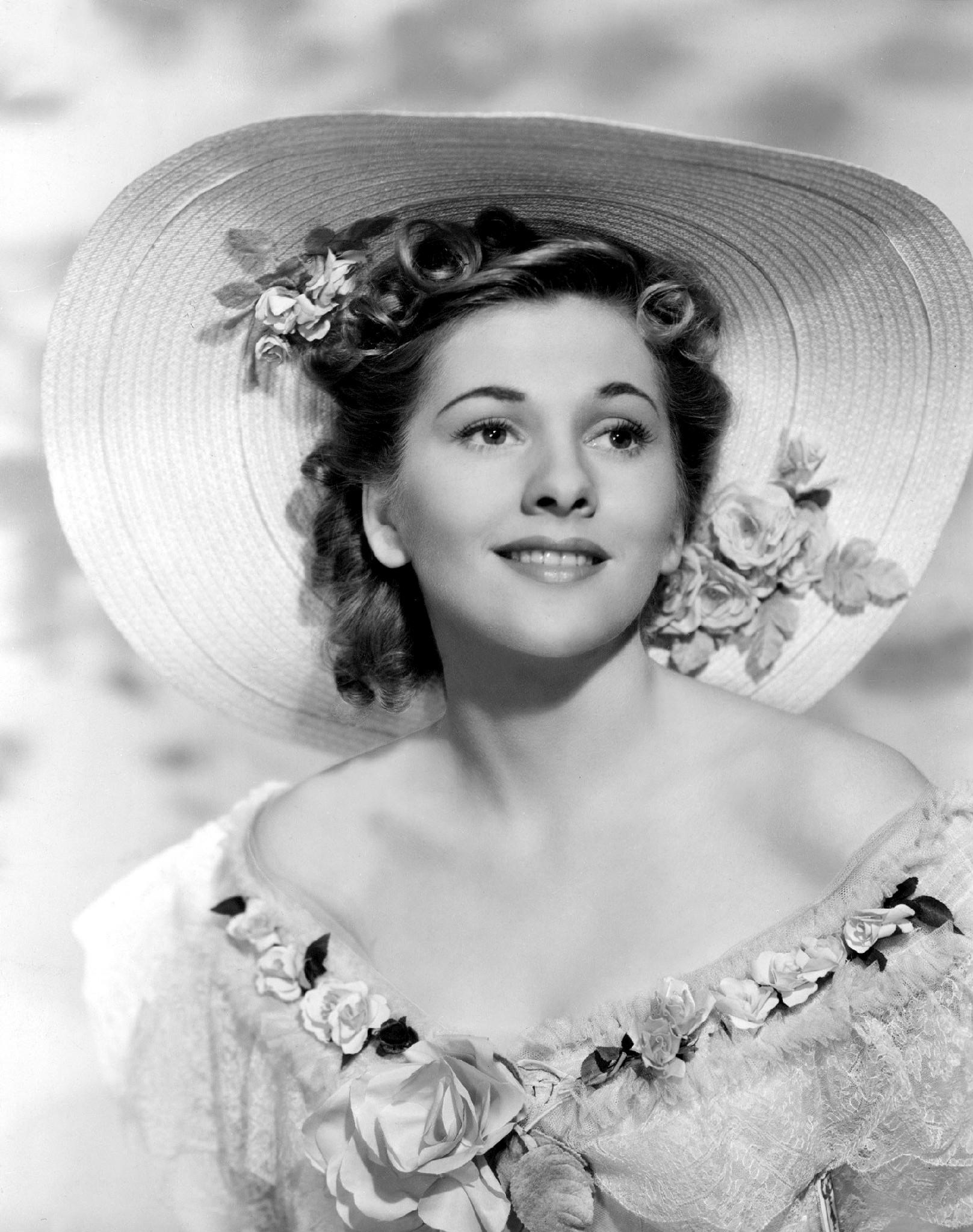 Photo of Joan Fontaine in the 1940 film Rebecca.